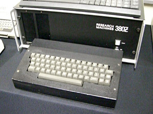 The Research Machines 380Z 8-bit microcomputer photographed at the National Museum of Computing, Swindon, UK.